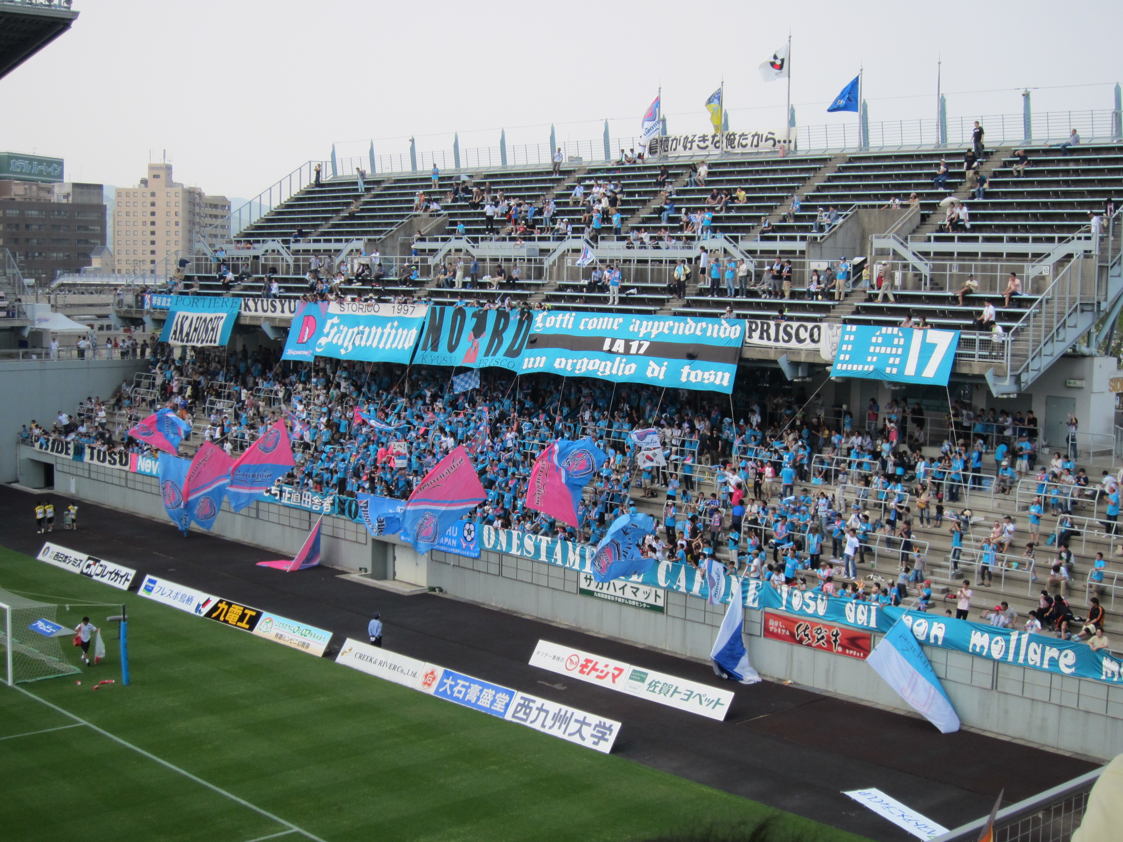 SaganTosu Supporters in Stadium